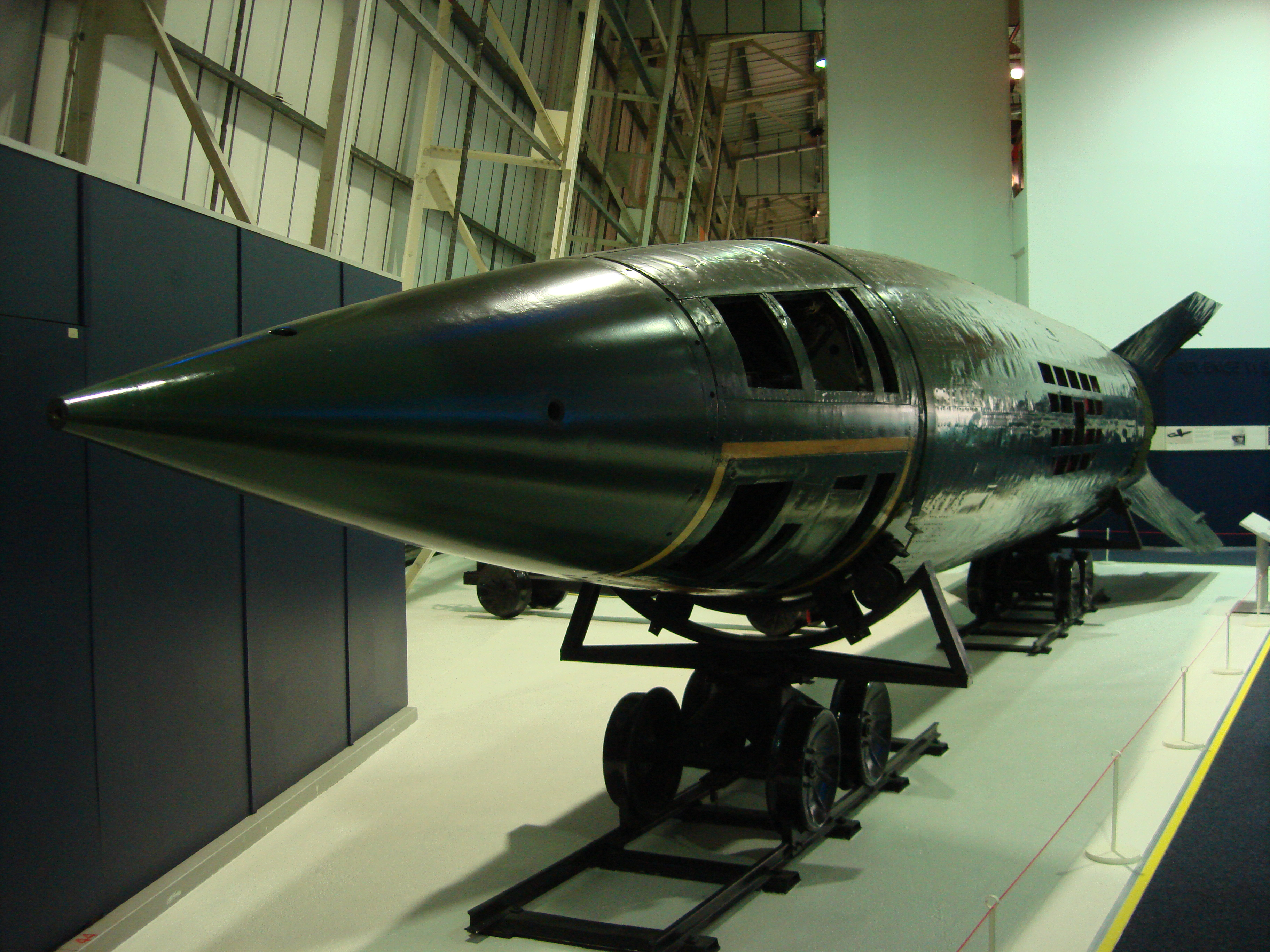 V2 rocket at the RAF Museum London